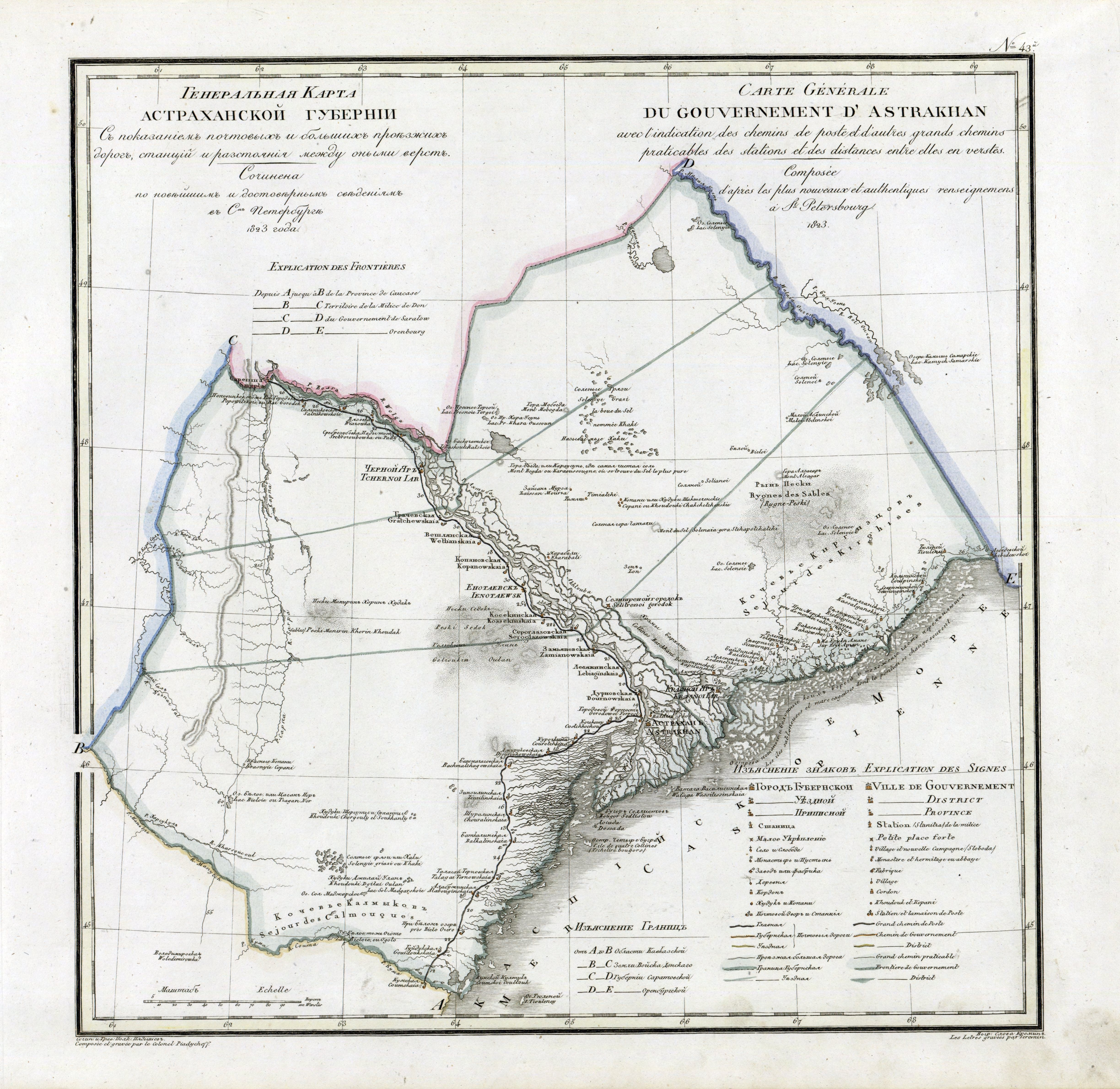 Astrakhan governorate